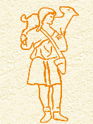 The Lord Jesus Christ in the image of Good Shepherd. Early Christian tradition of symbolism.